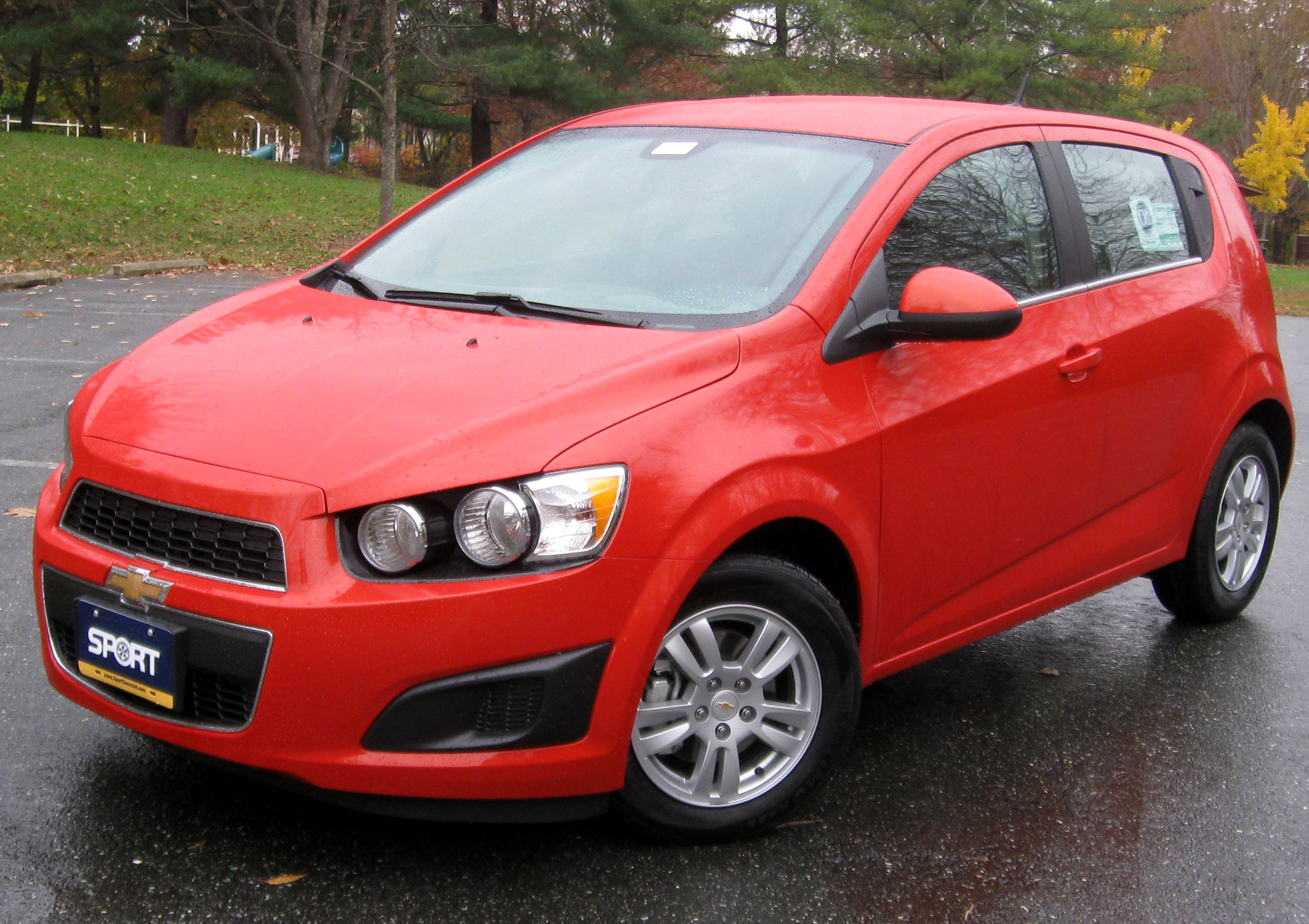 2012 Chevrolet Sonic photographed in Silver Spring, Maryland, USA.